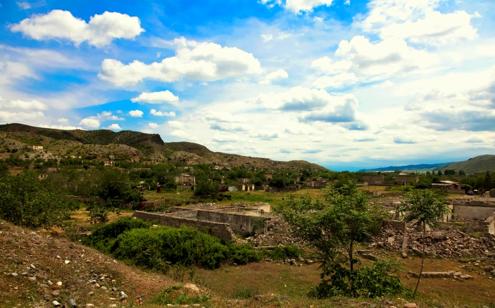 Vorotan, Nagorno-Karabakh Republic (Qubadli, Azerbaijan)